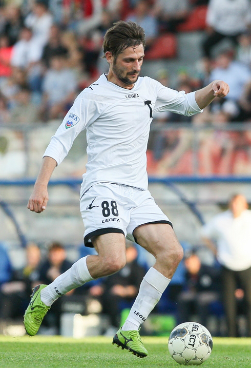 Igor Shevchenko in action for FC Torpedo Moscow